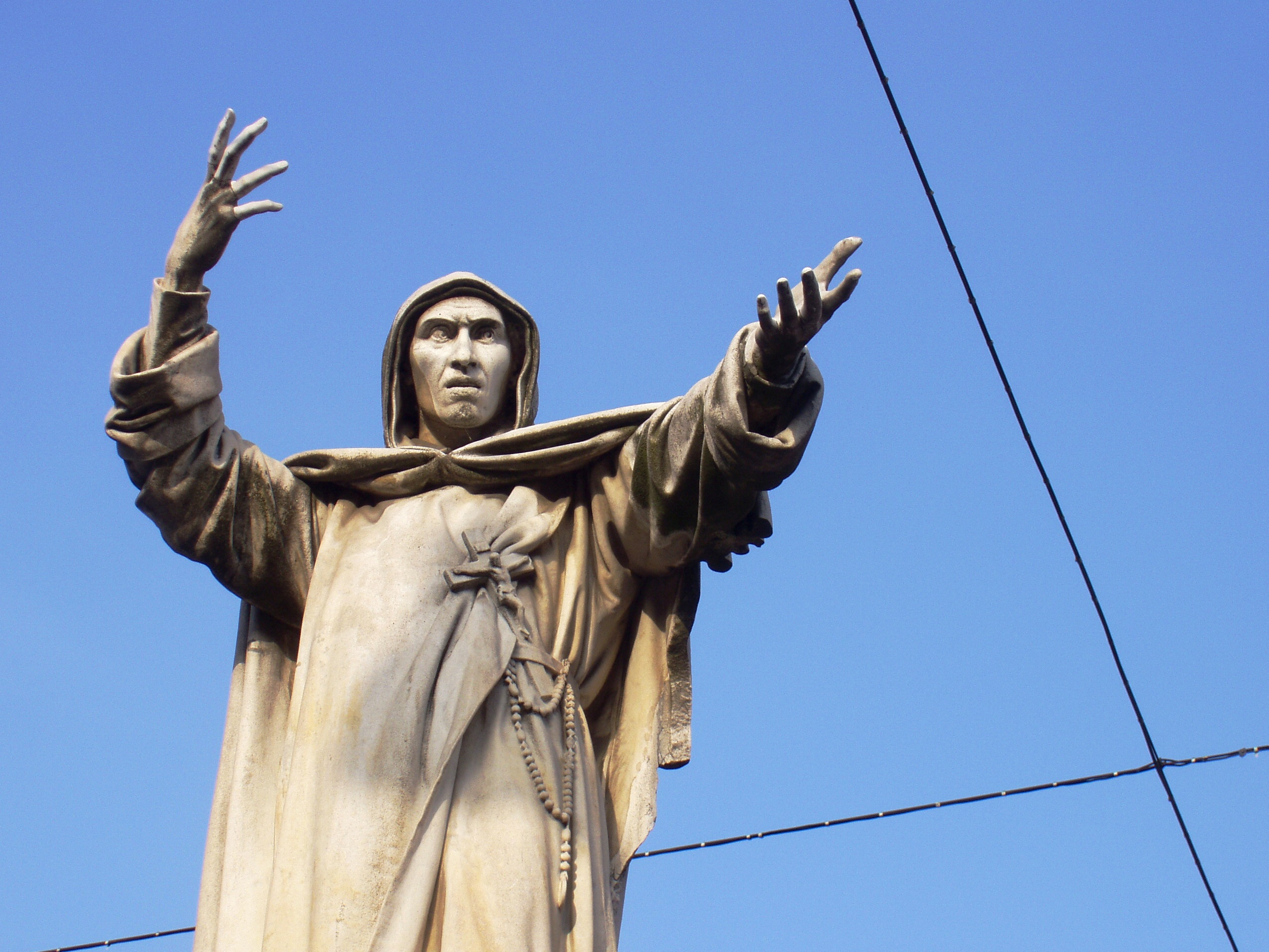 Girolamo Savonarola statue - Ferrara, Italy. This statue is immediately proximate to the Castello Estense in the city center.